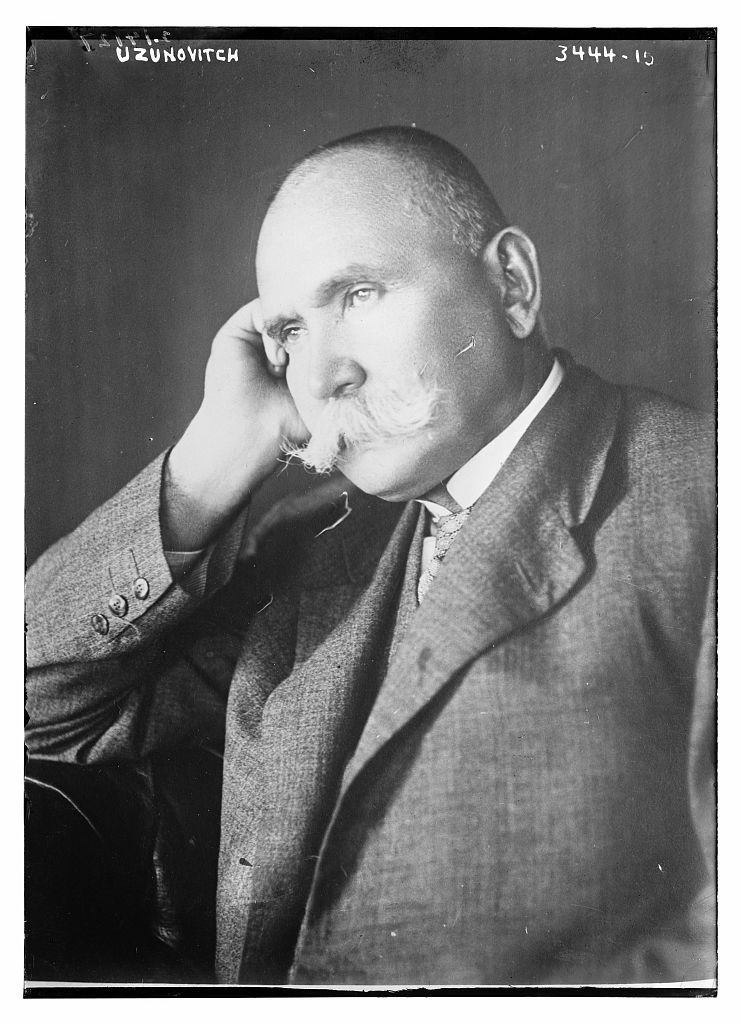 Serbian Radical poltician and Yugoslav PM Nikola Uzunović.